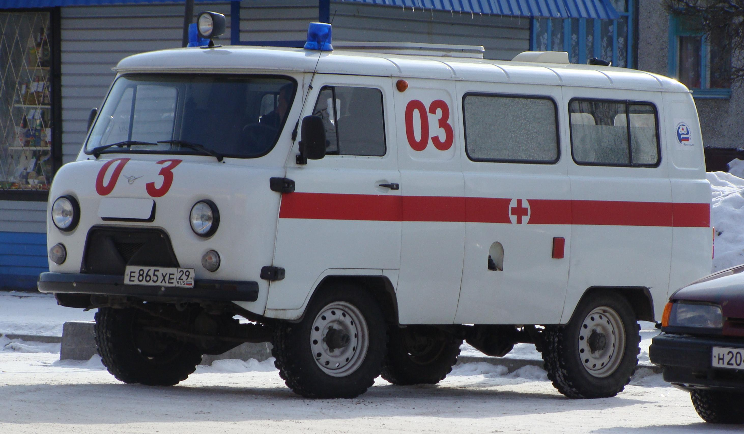 UAZ 452, Ambulances, Koryazhma